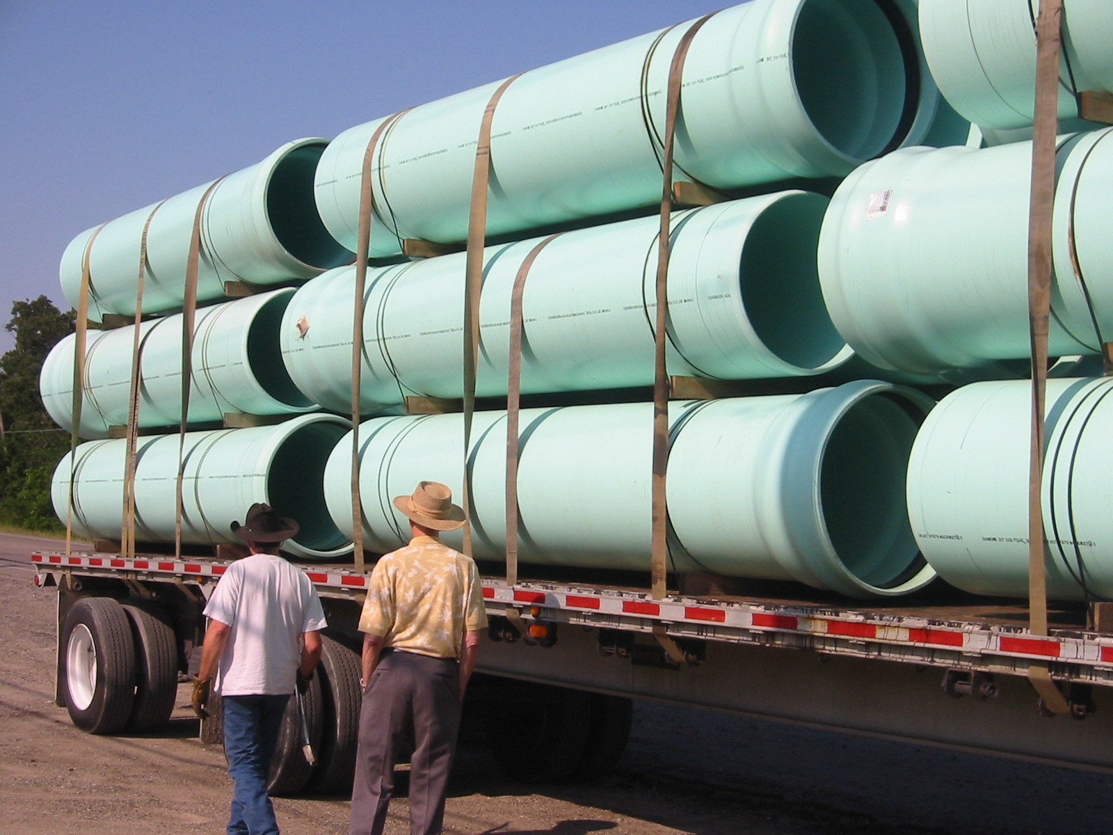 PVC pipe. Photo taken by Shah Rahman, released to public domain.